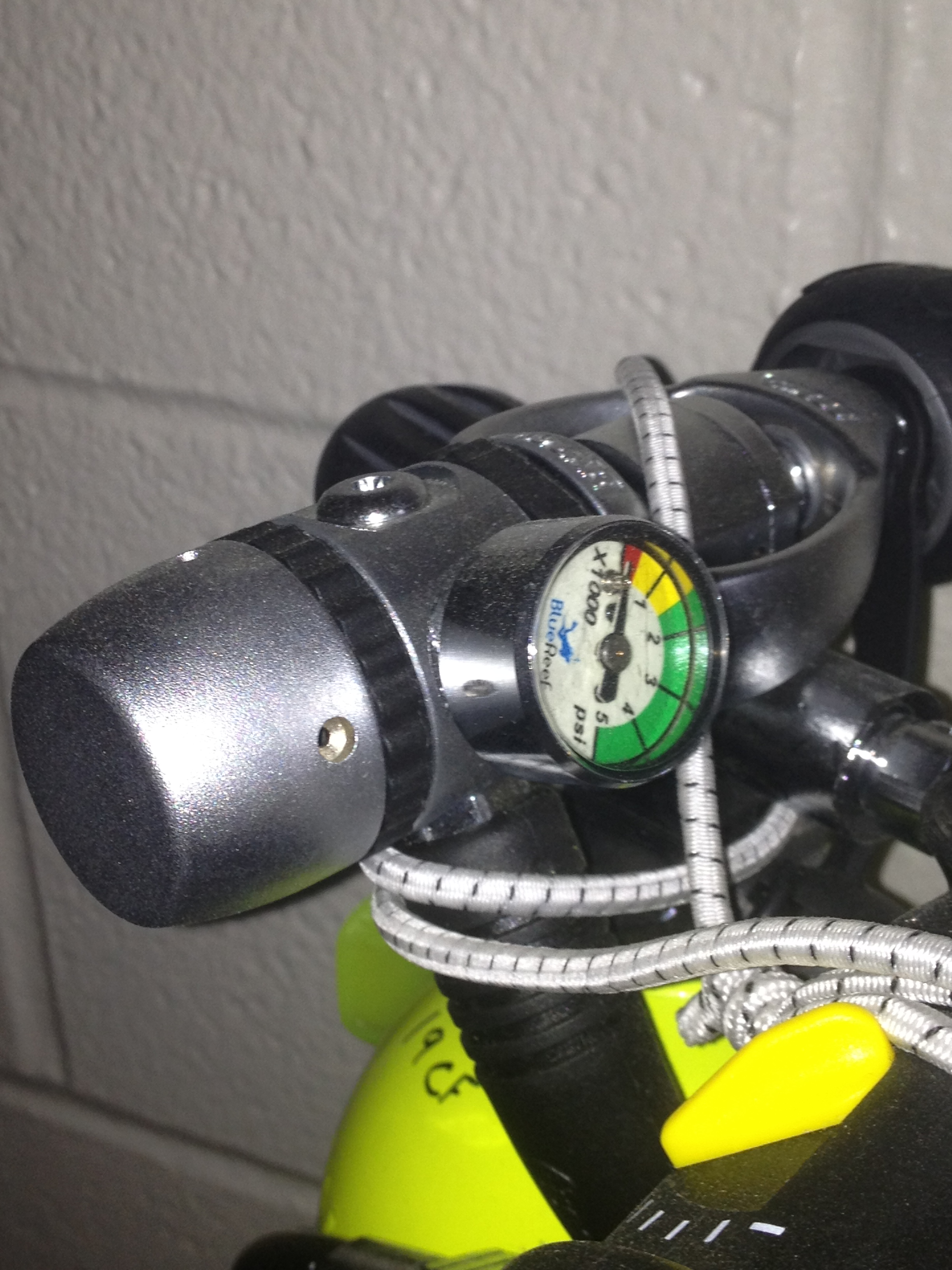 A miniature Submersible Pressure Guage for scuba diving